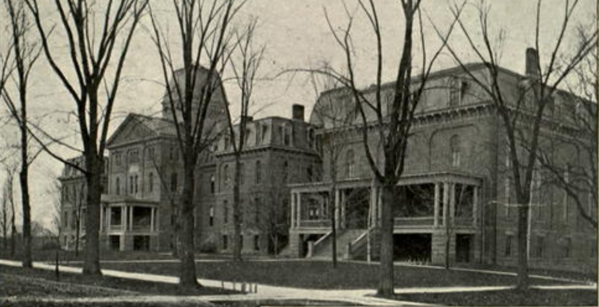 Geneseo Normal School Front View Geneseo (NY) 1904